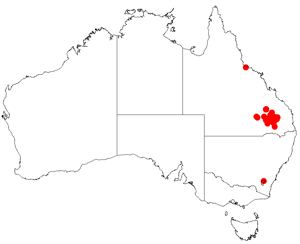 Homoranthus melanostictus Occurrence data from AVH downloaded 28 September 2018